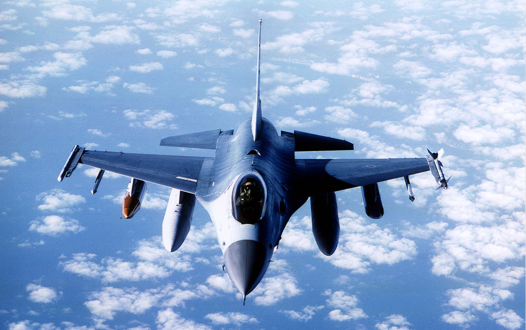 General Dynamics F-16A of the 613th TFS